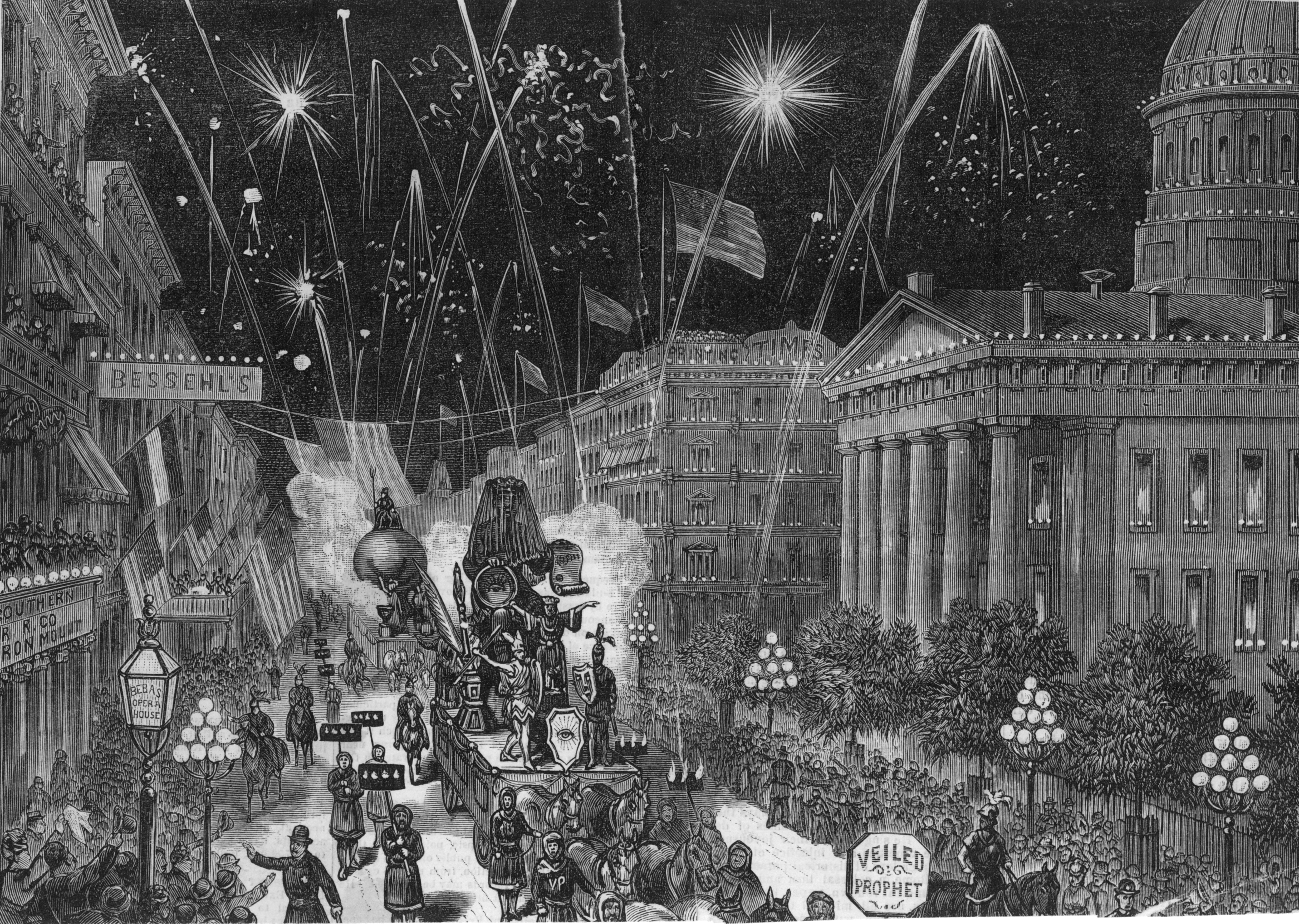 Title: Veiled Prophet Parade.